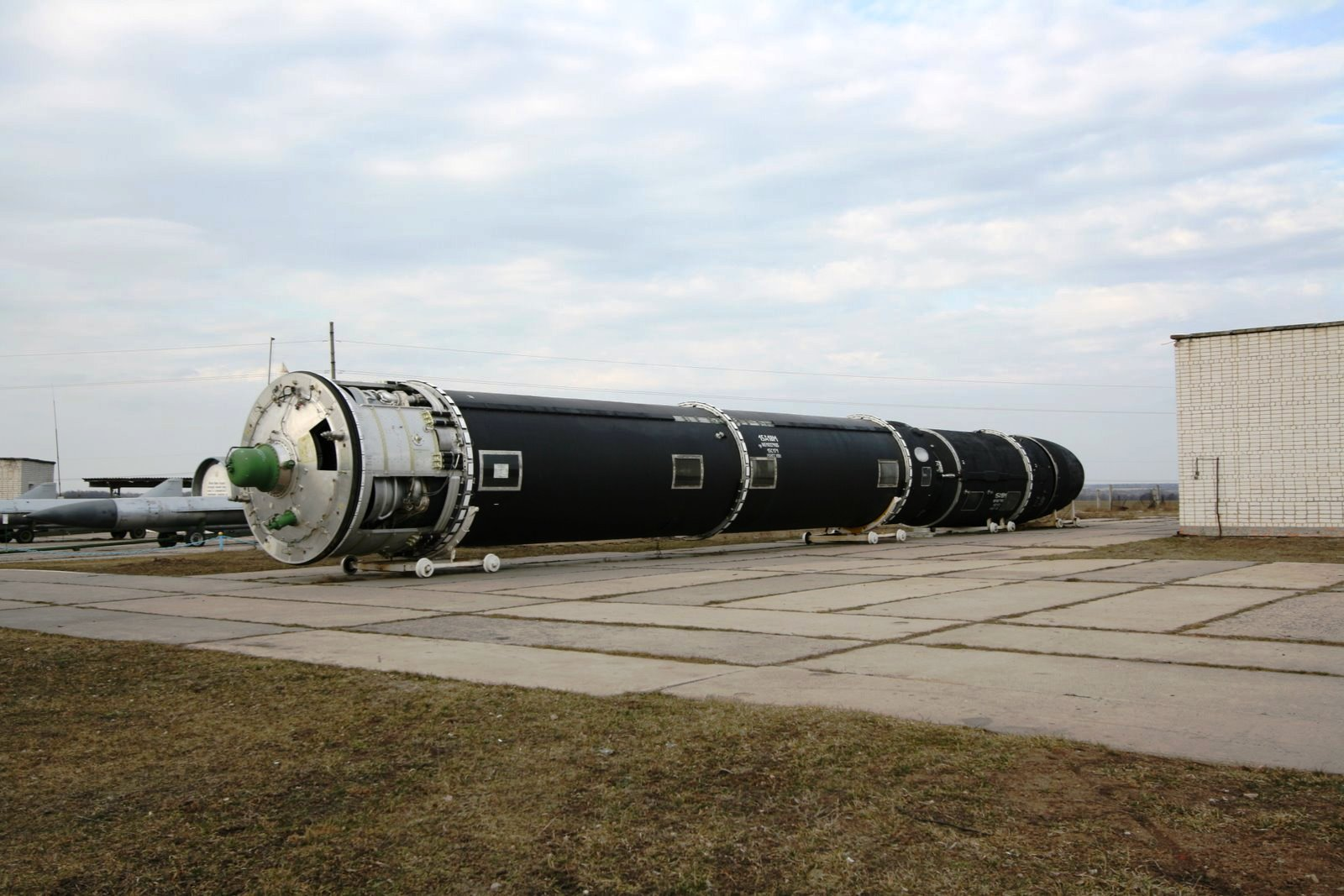 Intercontinental ballistic missile SS-18 Mod 5 (NATO reporting name: Satan), (GRAU designations is 15А18М - R-36M2 «Voyevoda»).